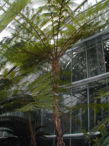 Cyathea_cooperi